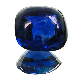 Sapphire Bufftop 7.98cts